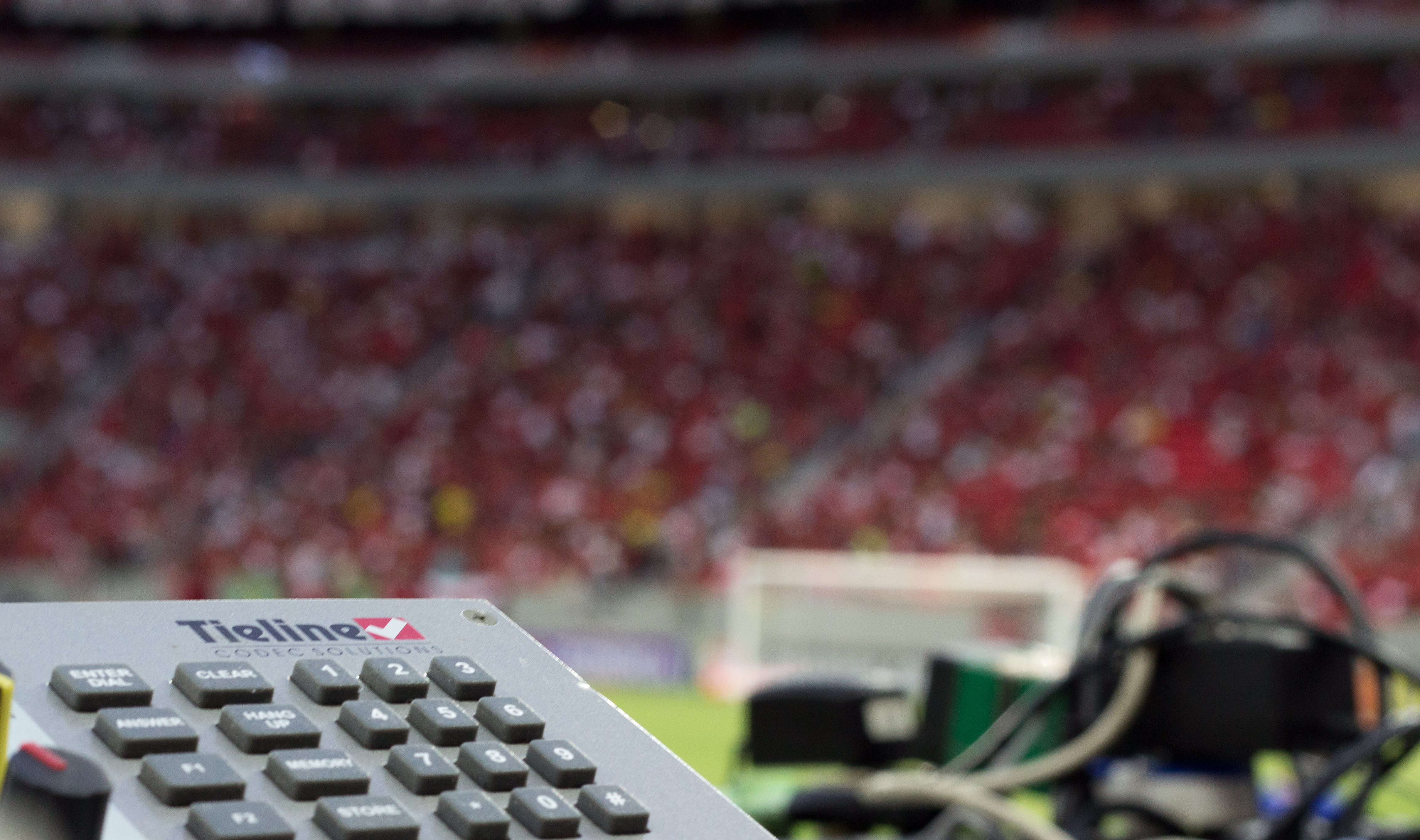 Tieline being used in a transmission at the National Stadium of Brasilia Mane Garrincha, Brazil.